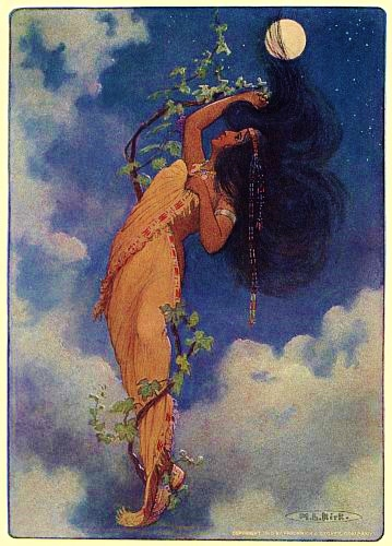 FROM THE FULL MOON FELL NOKOMIS - from The Story of Hiawatha, Adapted from Longfellow by Winston Stokes and Henry Wadsworth Longfellow - Illustrator M. L. Kirk - 1910